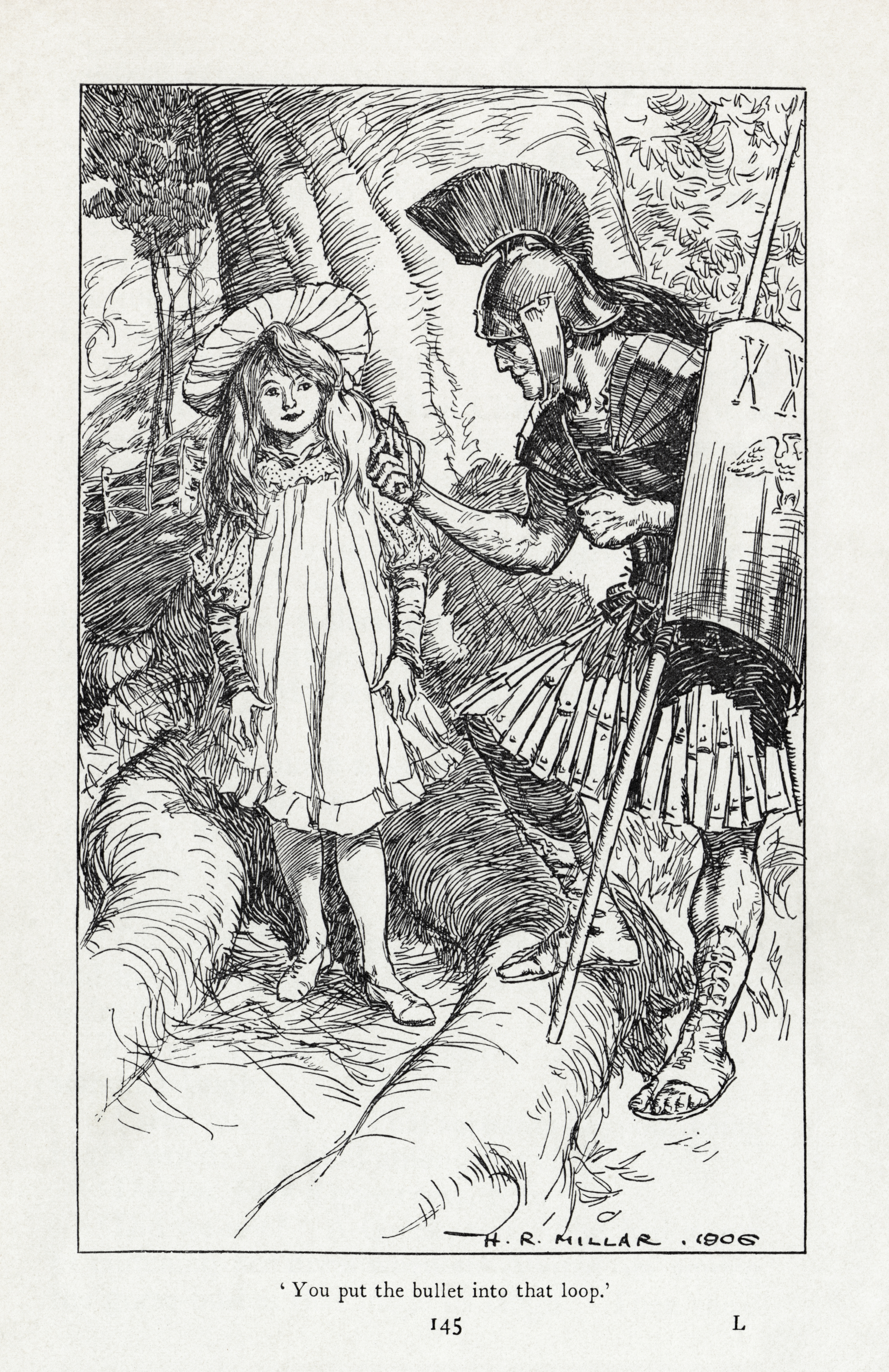 H. R. Millar's 11th illustration to the original edition of Rudyard Kipling's Puck of Pook's Hill, from the chapter "A Centurion of the Thirtieth": "'You put the bullet into that loop'".